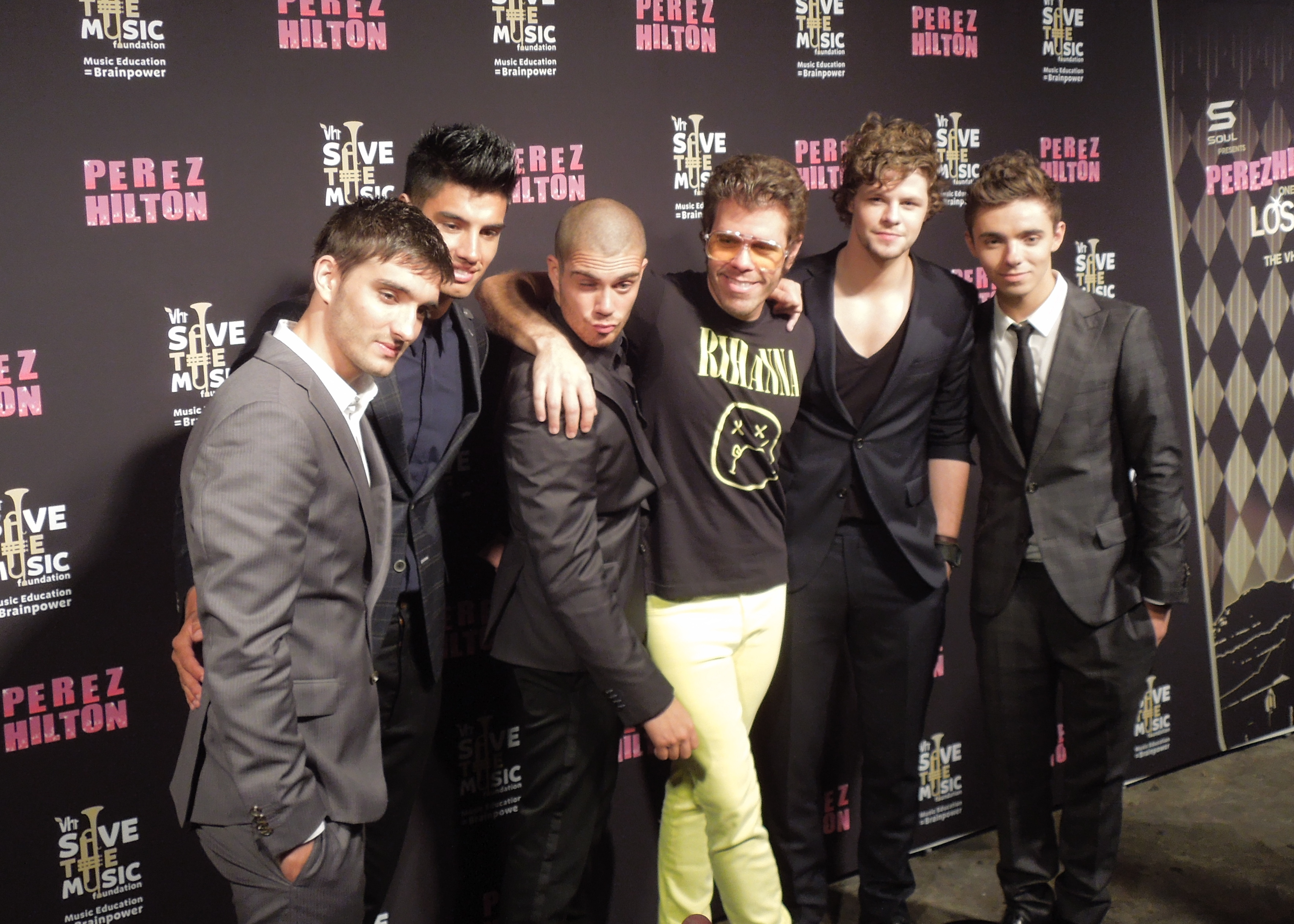 The Wanted poses with Perez Hilton before they take the stage.